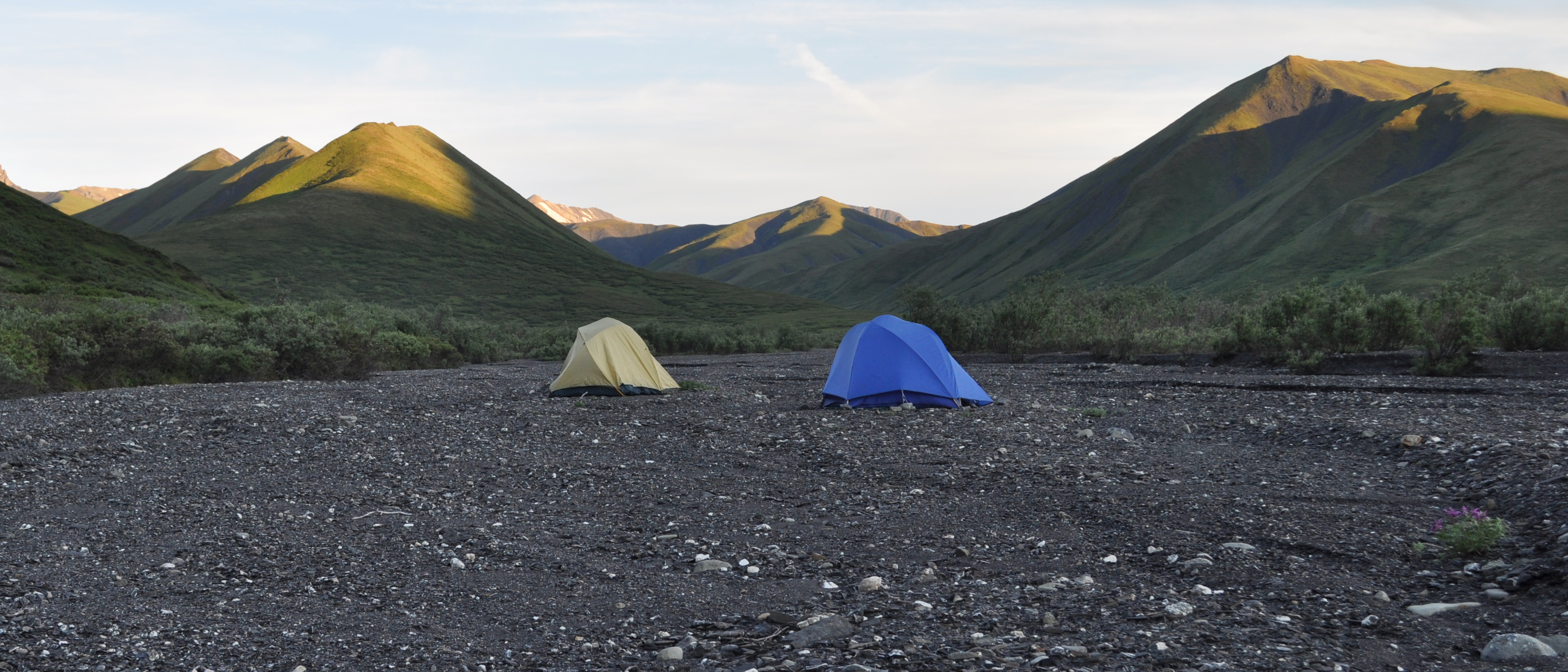 Camping in the Savage River valley of Denali National Park